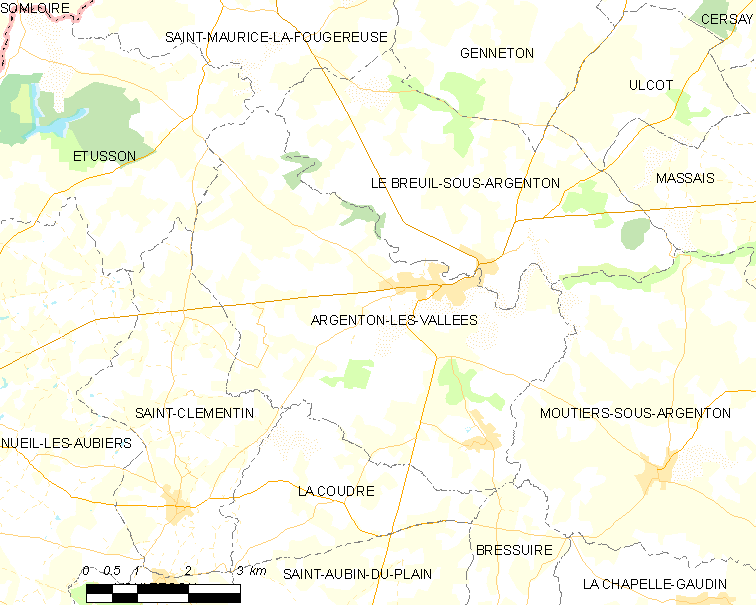 Map of French municipality Argenton-les-Vallées